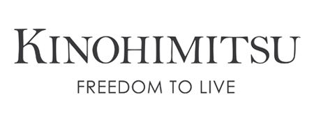 Kinohimitsu Brand Logo with tagline, Freedom to Live.